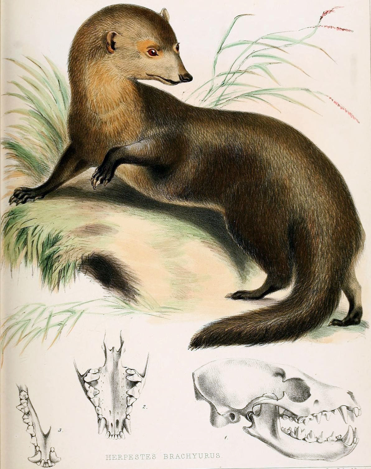 The Zoology of the voyage of H.M.S. Samarang, under the command of Captain Sir Edward Belcher, C.B., F.R.A.S., F.G.S., during the years 1843-1846 /. London :Reeve and Benham, 1850 [i.e. 1848-1850].